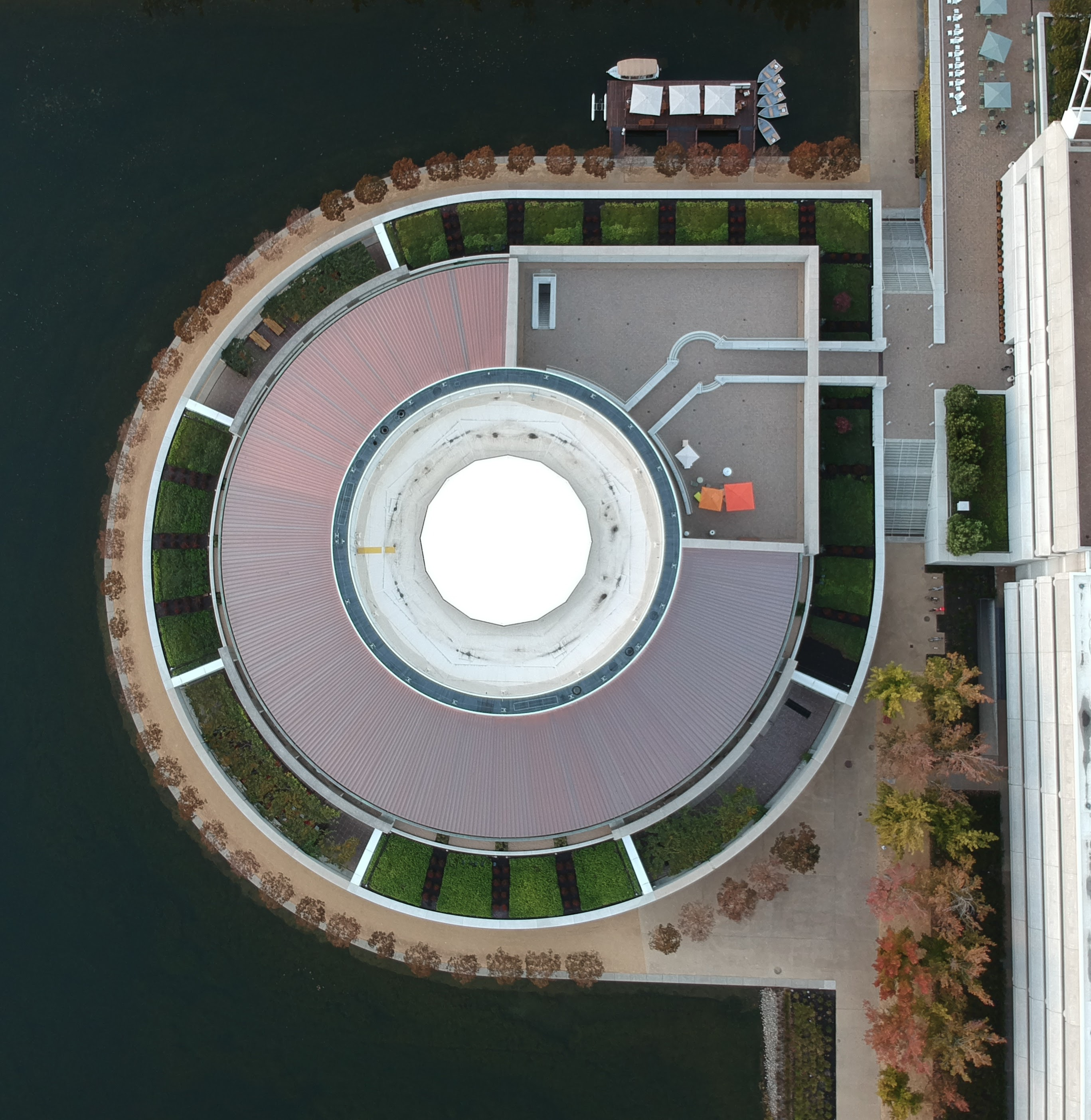 This is an aeriel photograph of Bishop Ranch.